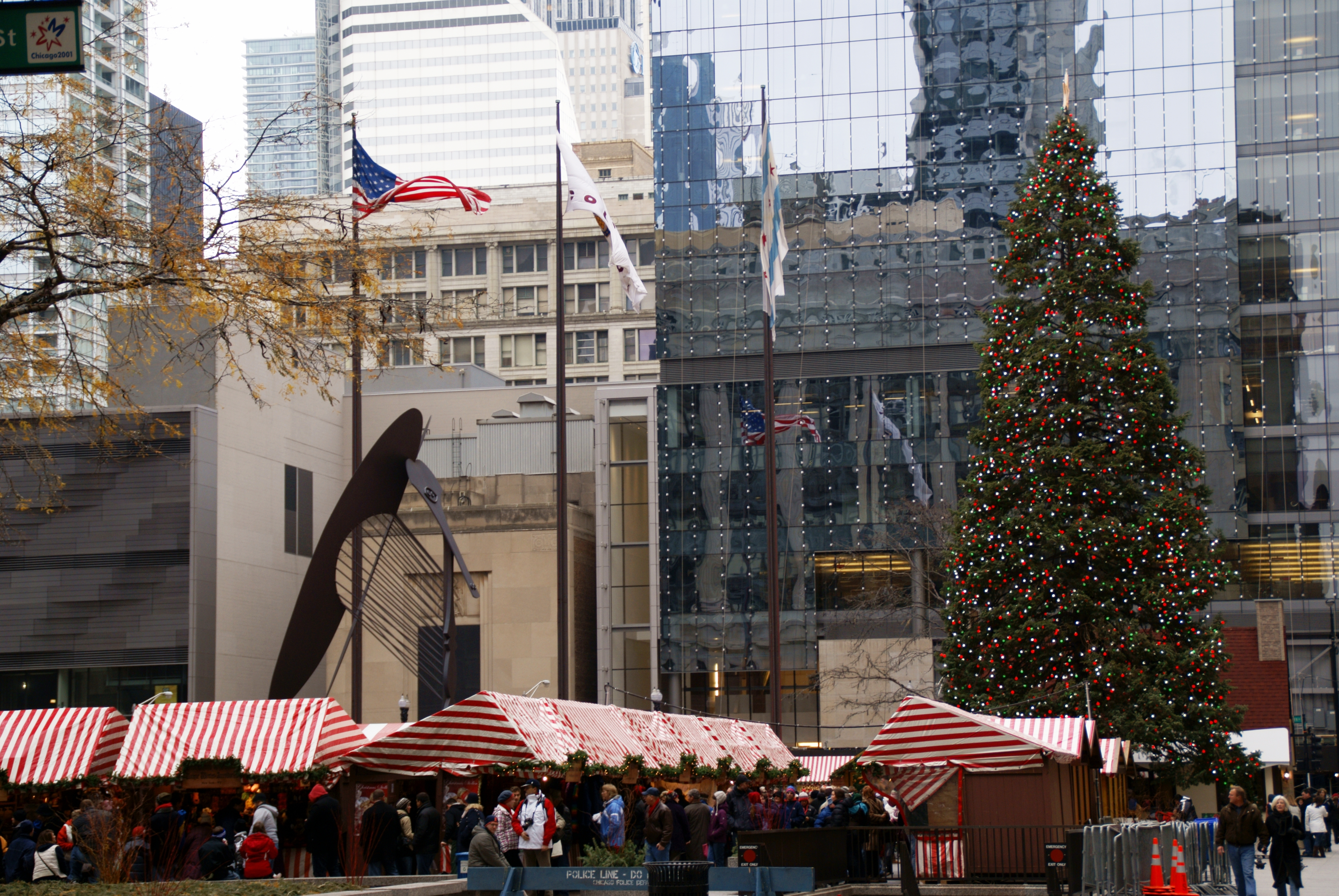 Daley Plaza during Christkindlmarket in Chicago.